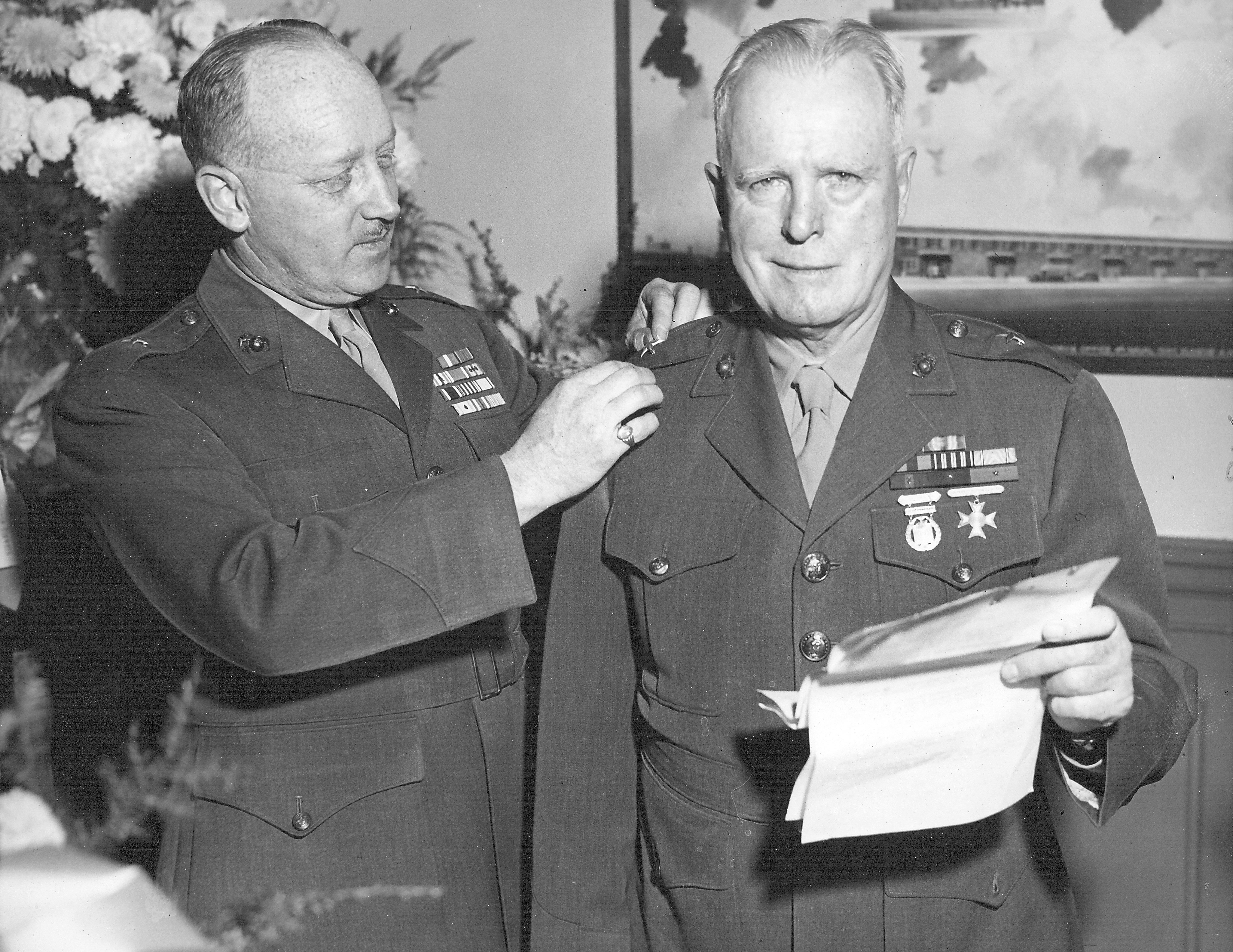 Brigadier general Leonard E. Rea (executive officer of the Quartermaster Department) promotes Maurice C. Gregory (Commanding officer, Depot of Supplies, Philadelphia) to the rank of Brigadier general, November 1944.